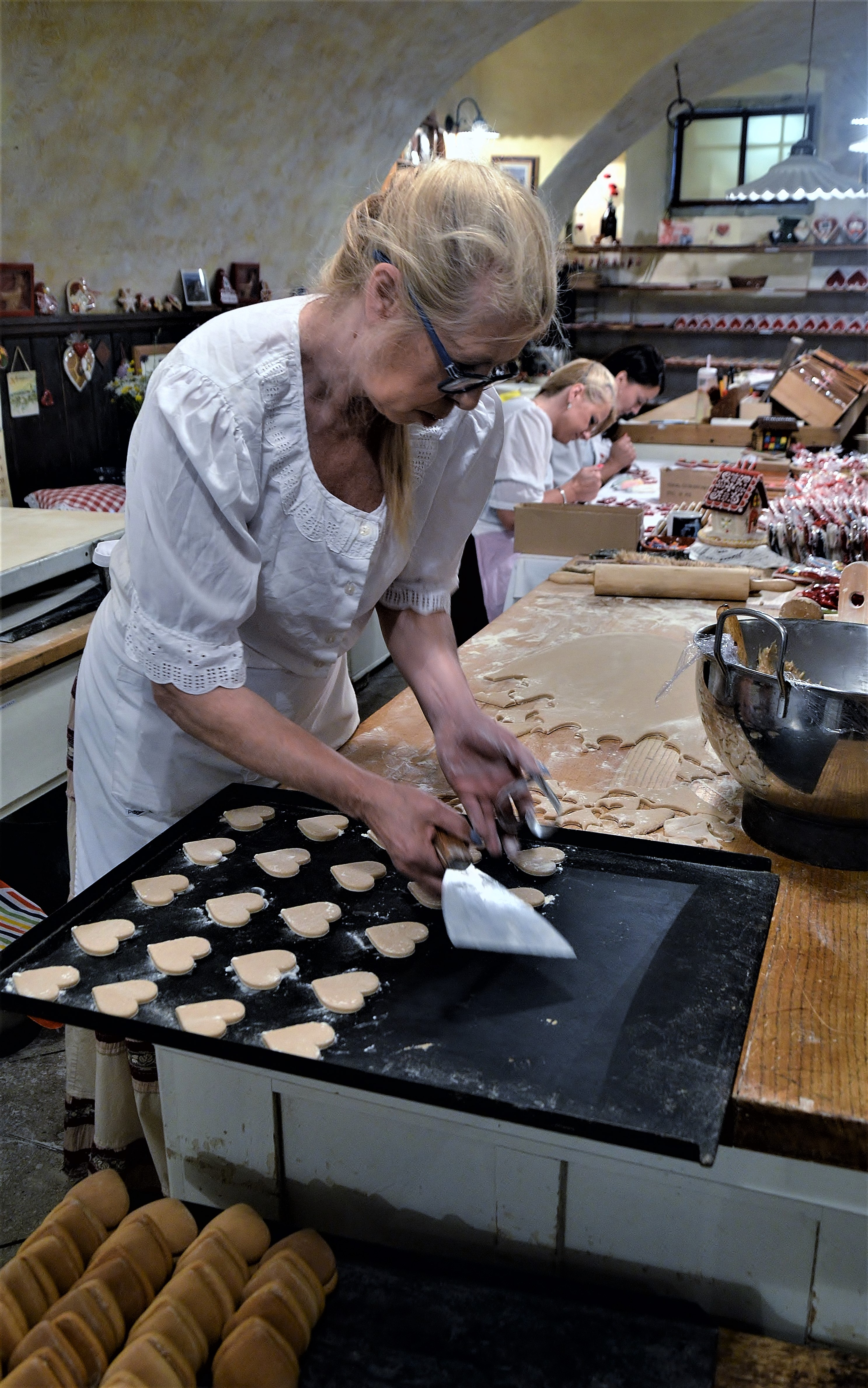 Gingerbread making women. Gingerbread Museum in Radovljica, Slovenia.